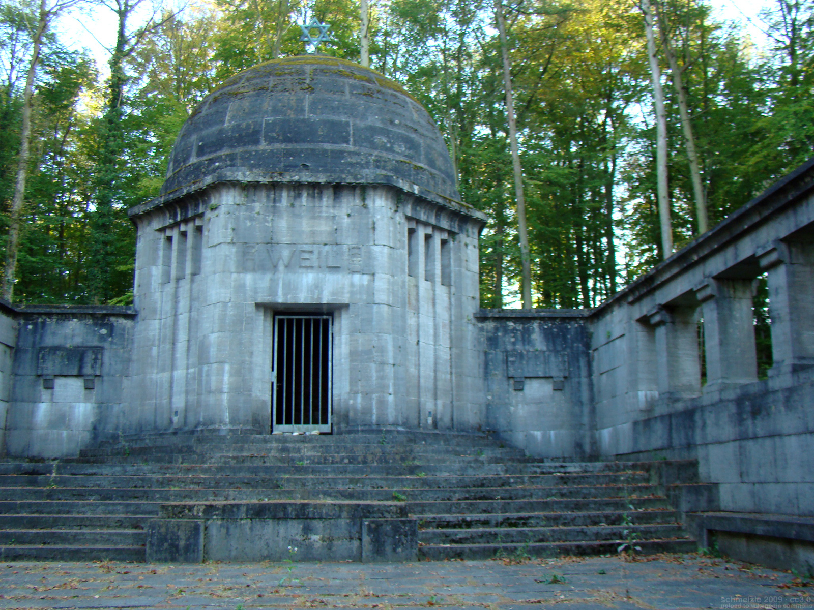 Jewish cemetery in Waibstadt, Germany